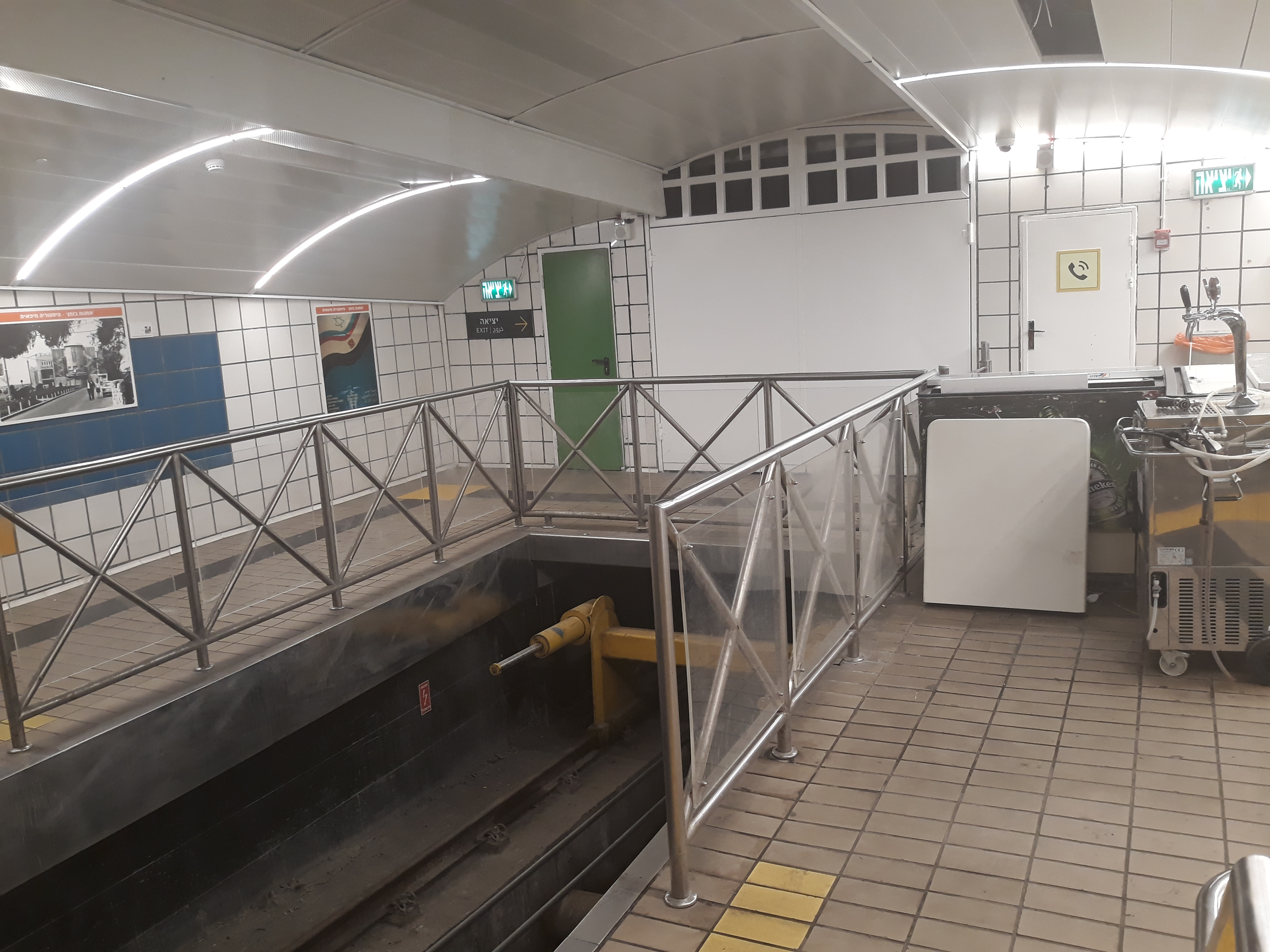 Carmelit subway in Haifa after its reopening in 2018